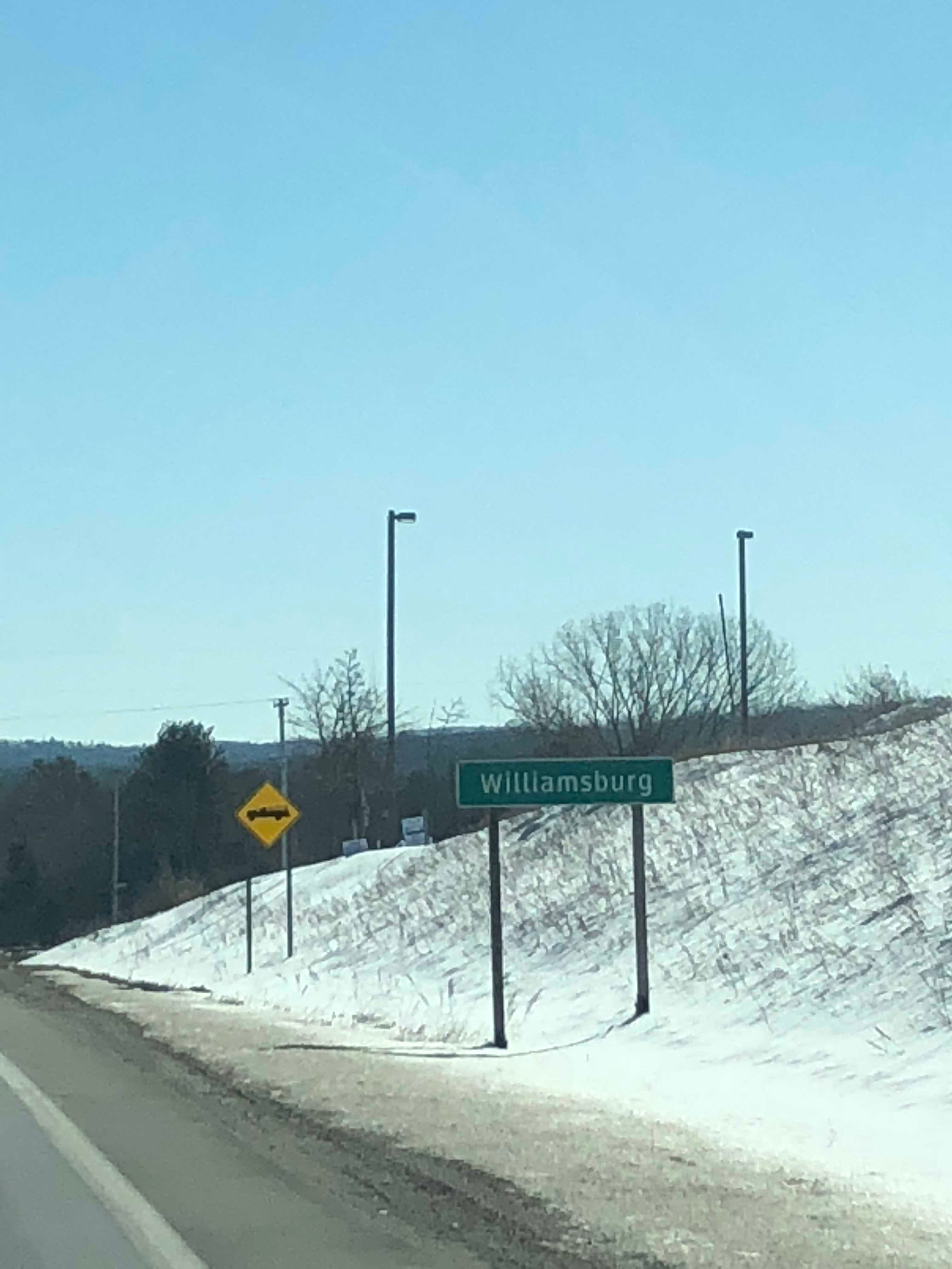 Sign for Williamsburg, Michigan on M-72 East